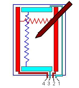 Resistive touchescreen schematic